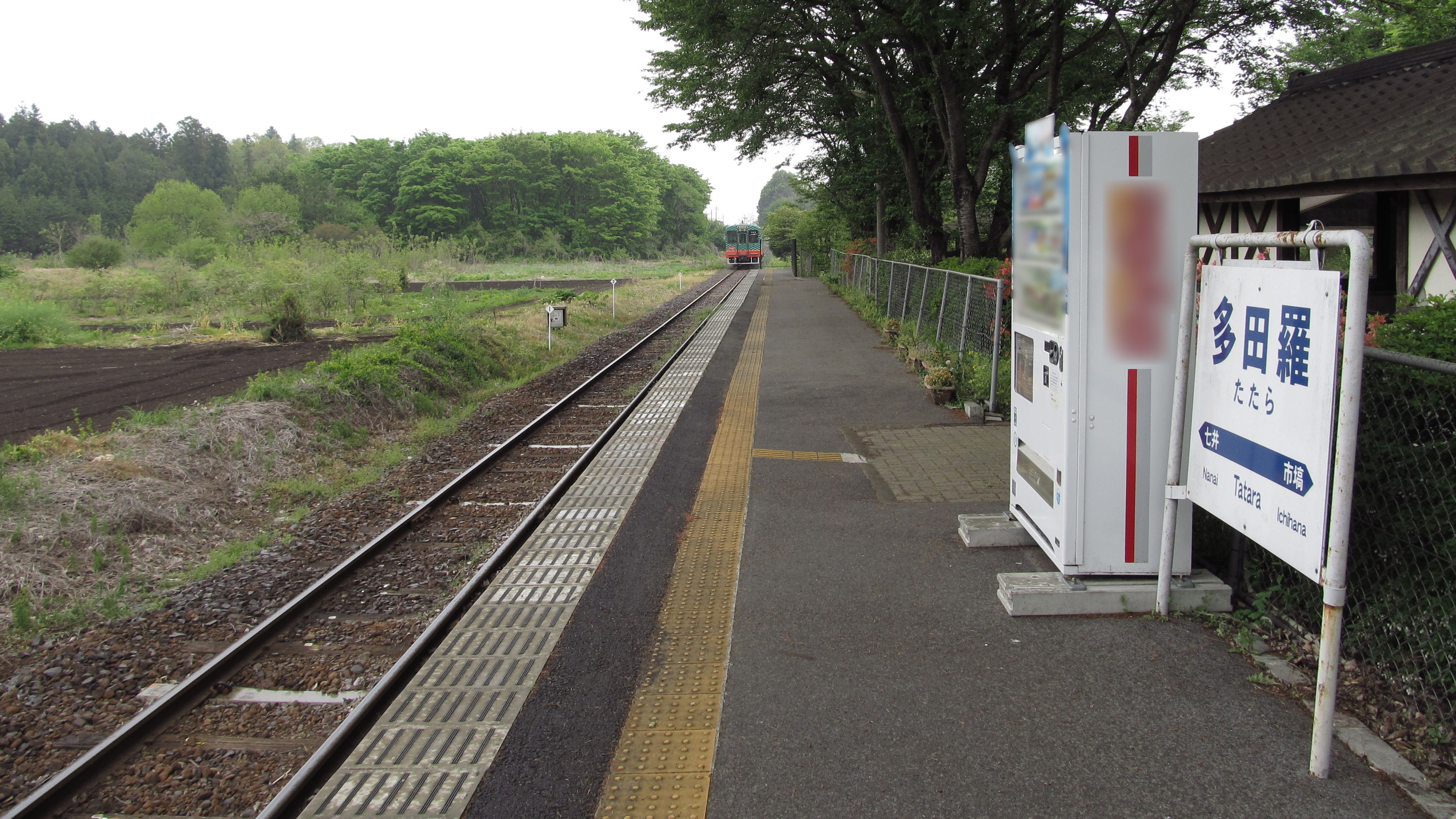 The platform at Tatara Station on the Mooka Railway Mooka Line in the Ichikai town, Tochigi prefecture, Japan